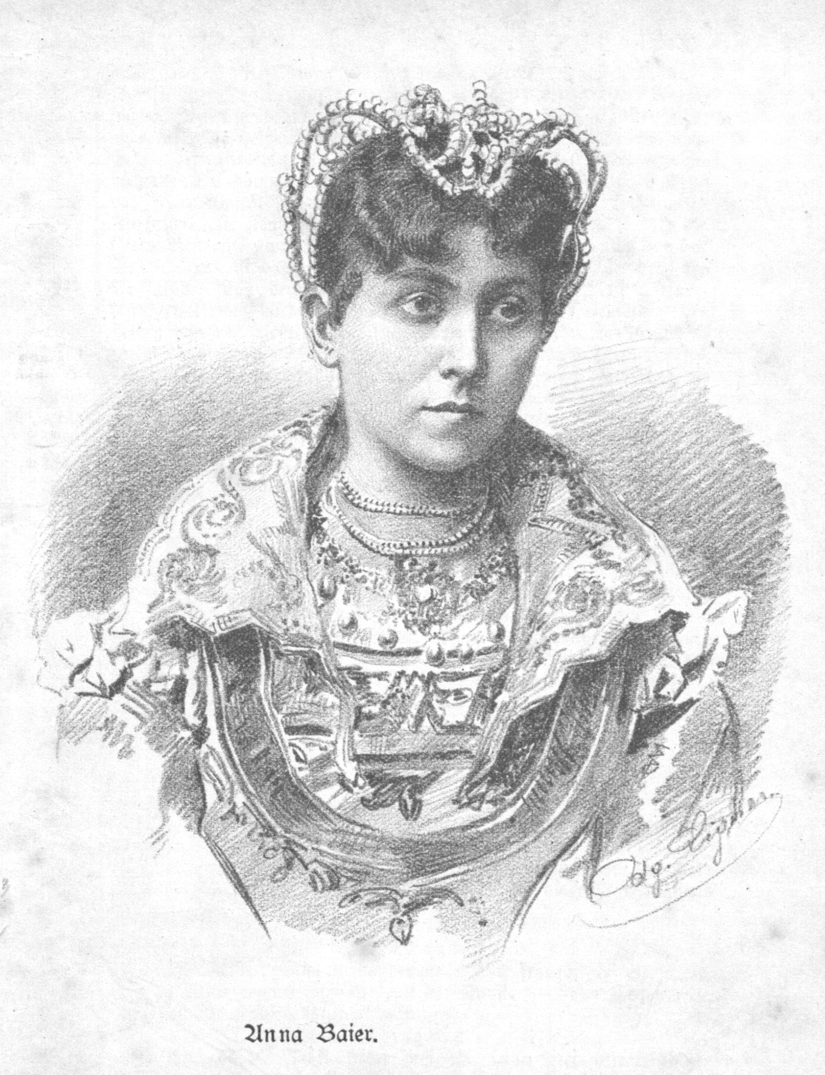 Portrait of Anna Baier (1860-1935), Austrian opera singer.